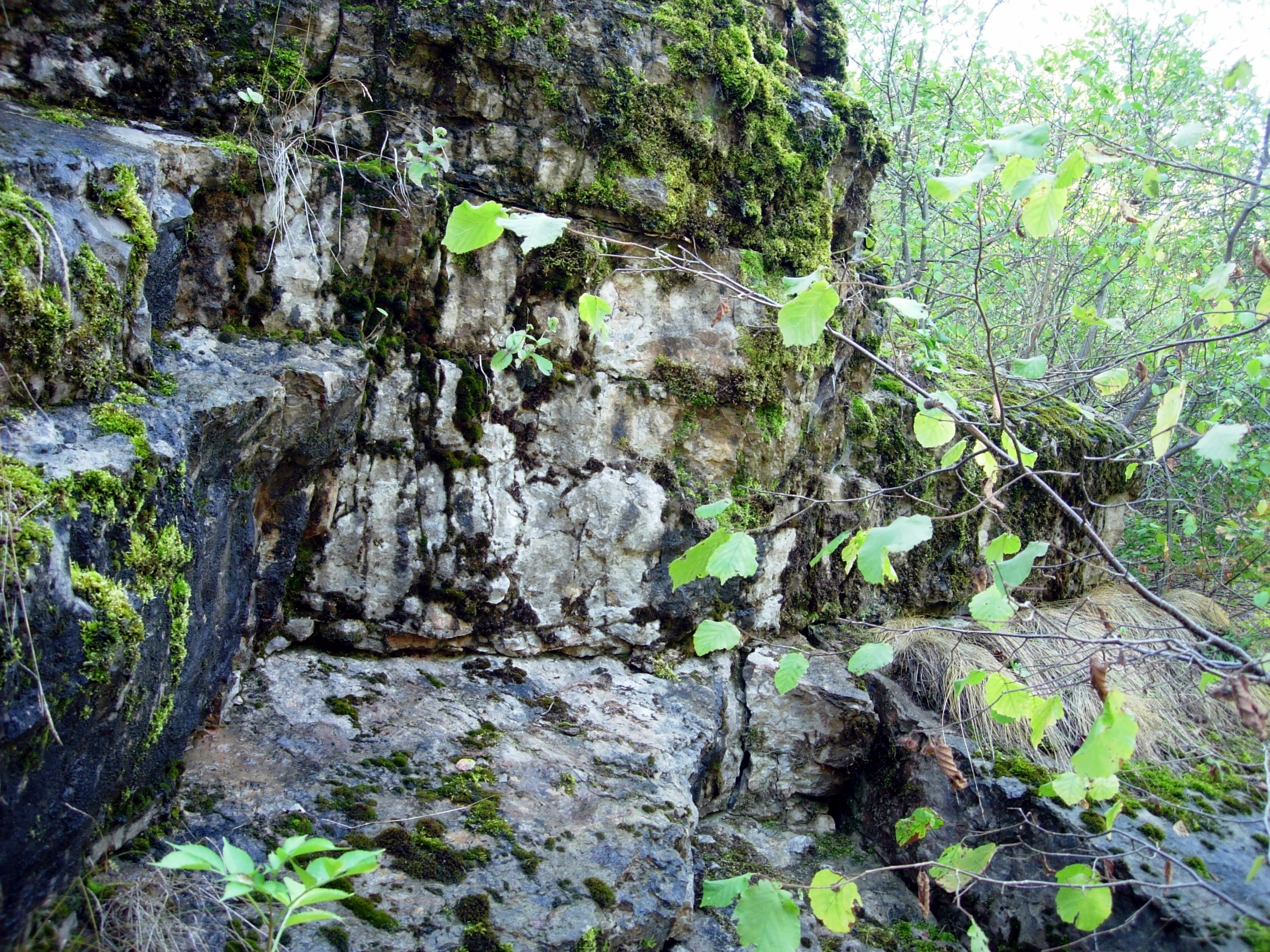 Nature reserve "Wąwóz w Skałach" in Poland, rocks on the south slope